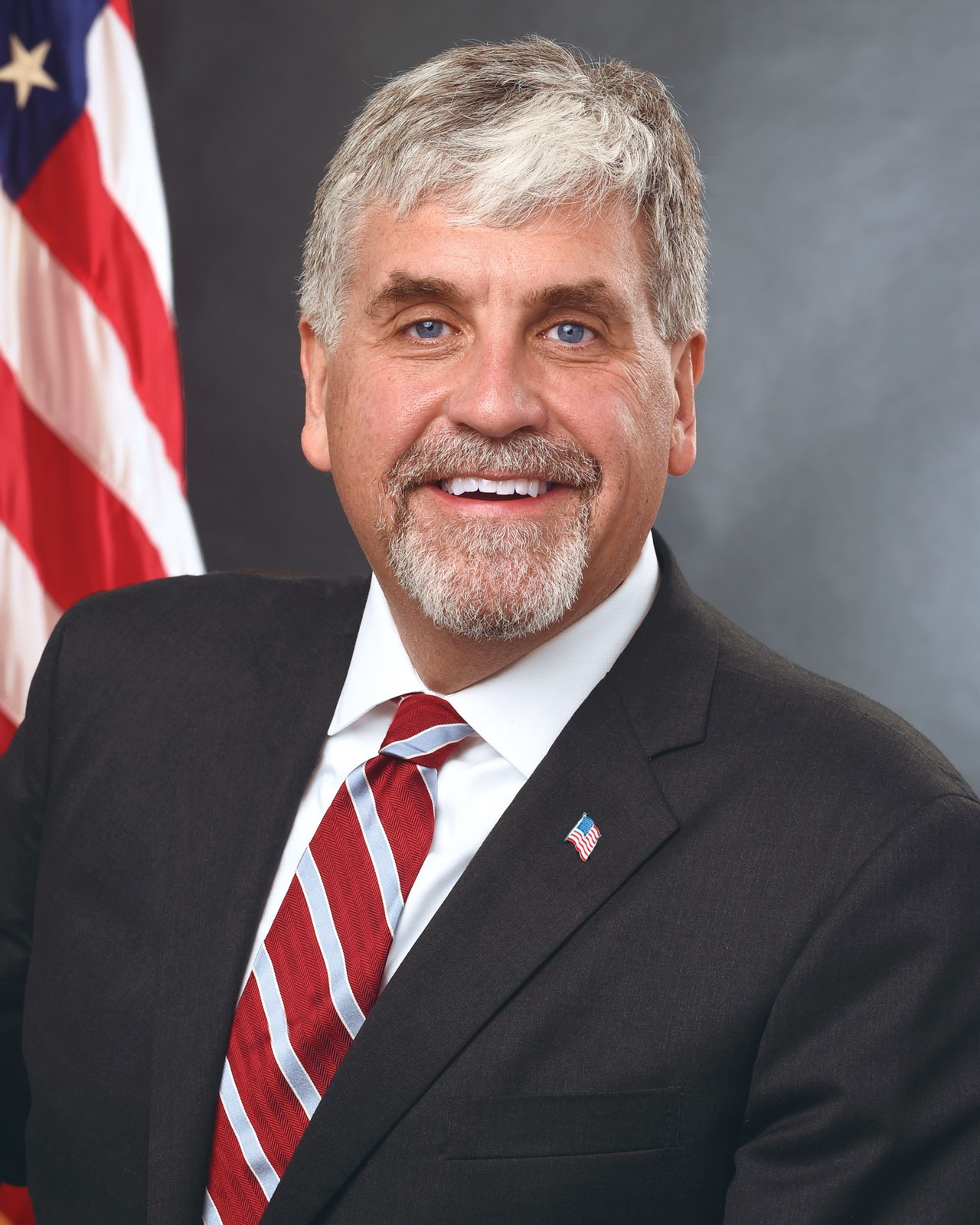 Eric Hargan official photo